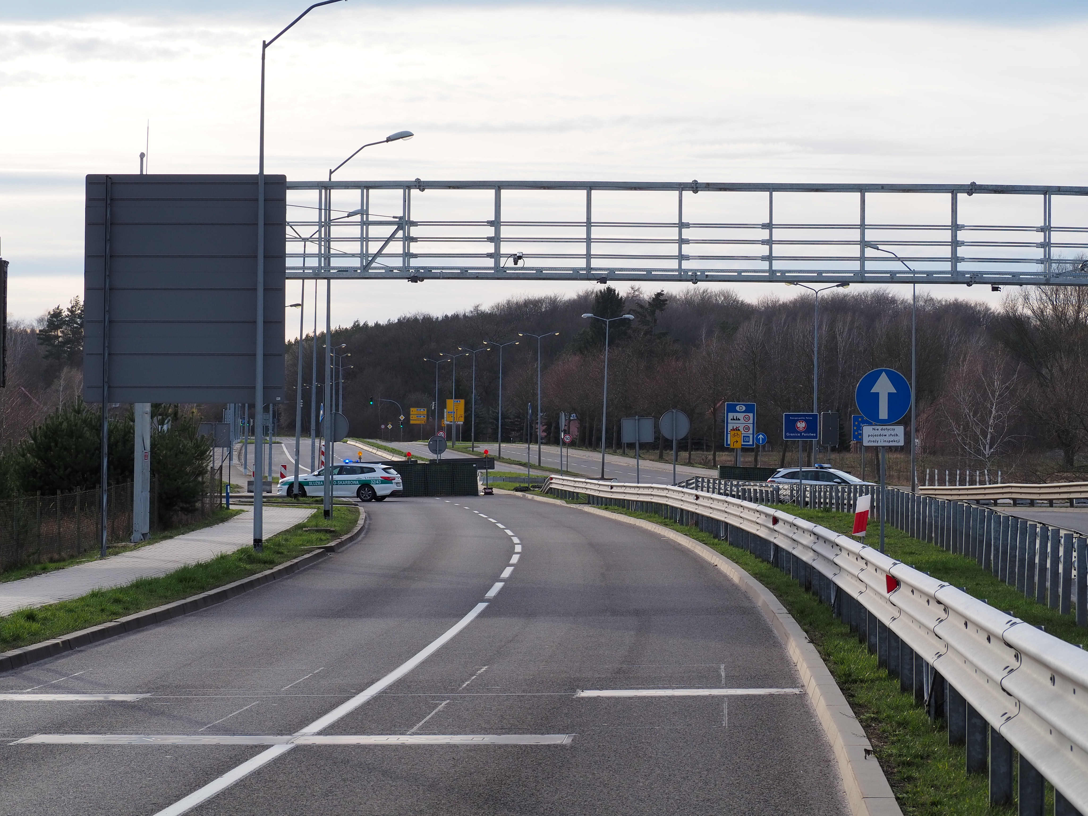 A photograph of a closed border between Germany and Poland in Lubieszyn during the COVID-19 pandemic in 2020.